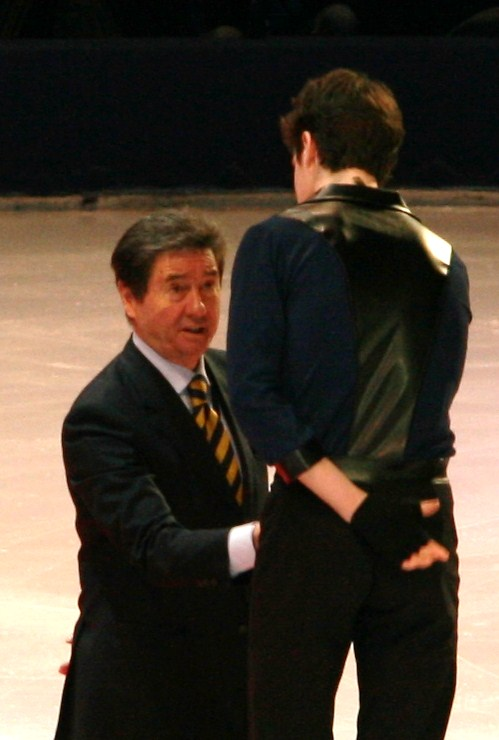 Ottavio Cinquanta congratulates Brandon Mroz with 3 rd place at the 2010 Trophée Eric Bompard